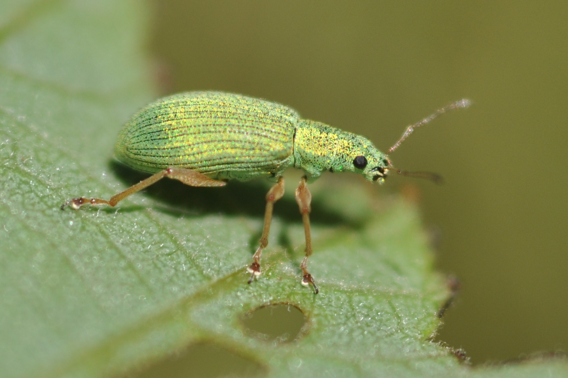 Pale Green Weevil Polydrusus impressifrons on Grey Alder Alnus incana in Bahrenfeld, Hamburg.